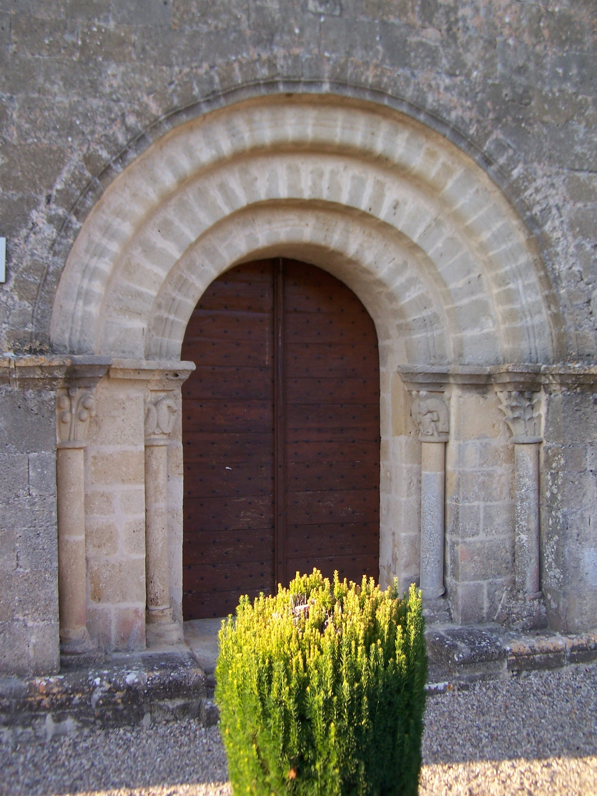 Portal of the church Saint-Martin de Monphélix of Pondaurat (Gironde, France)